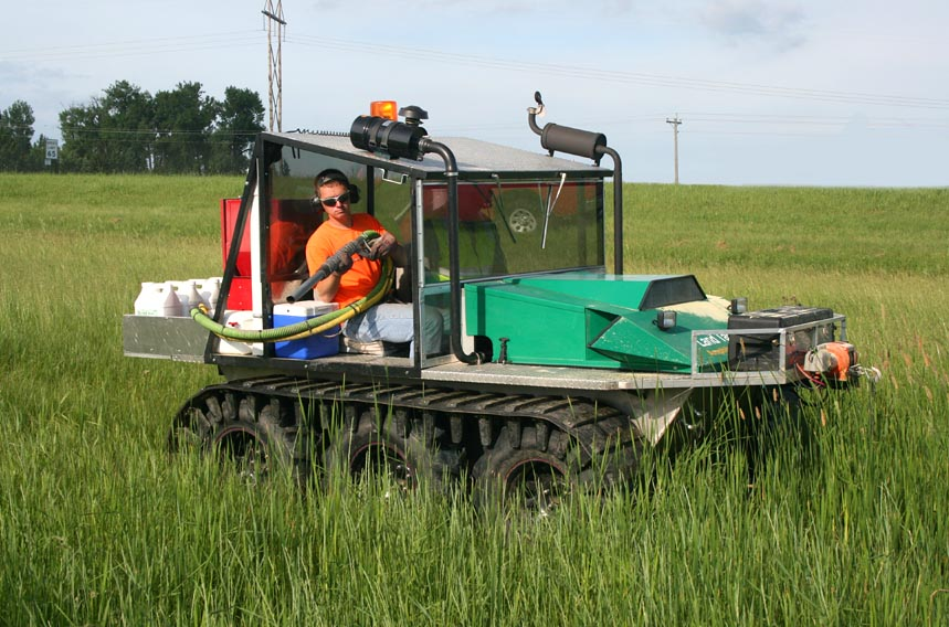 Land Tamer remote access vehicle with rubber tracks